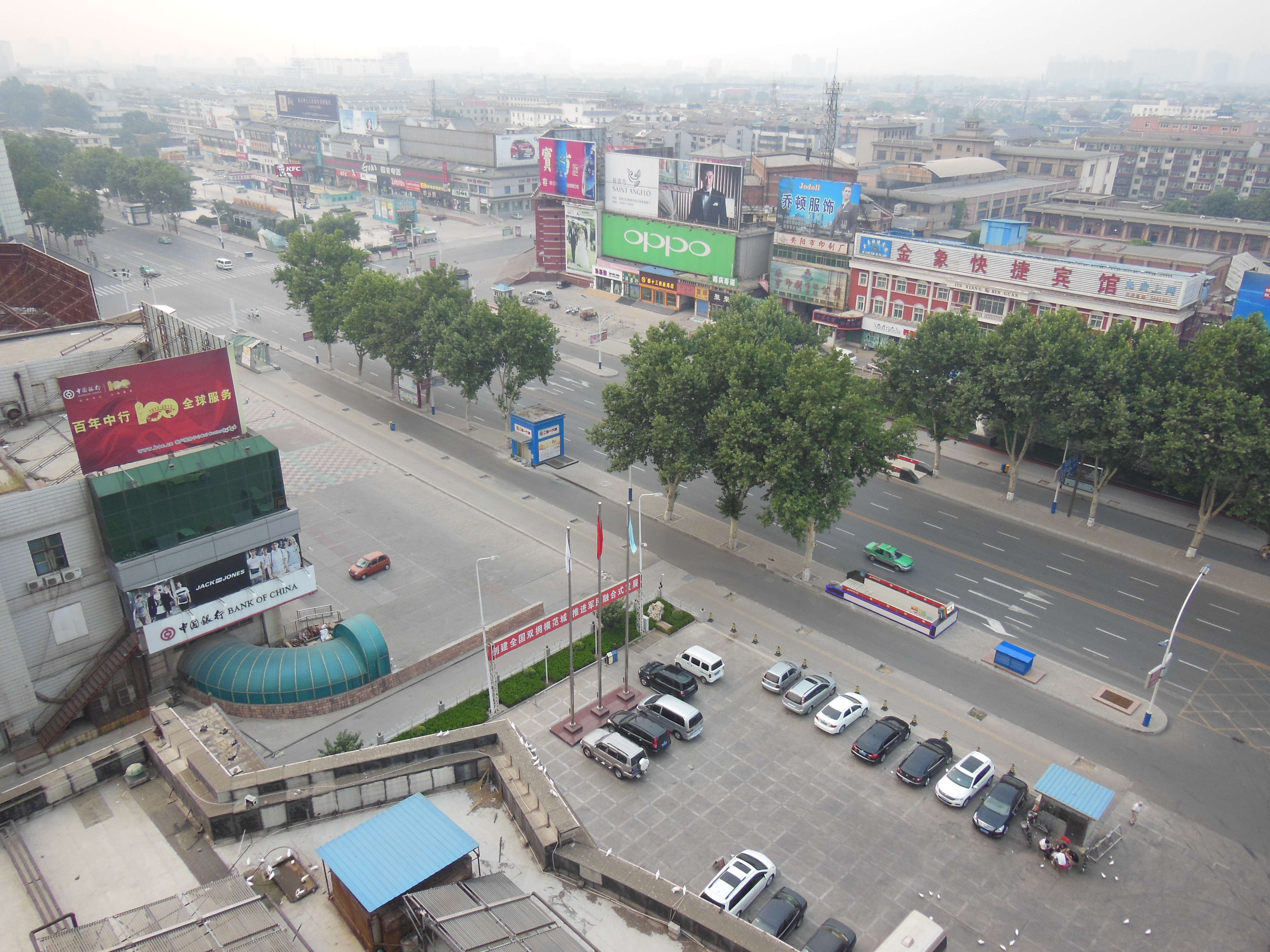 The Anyang Hotel